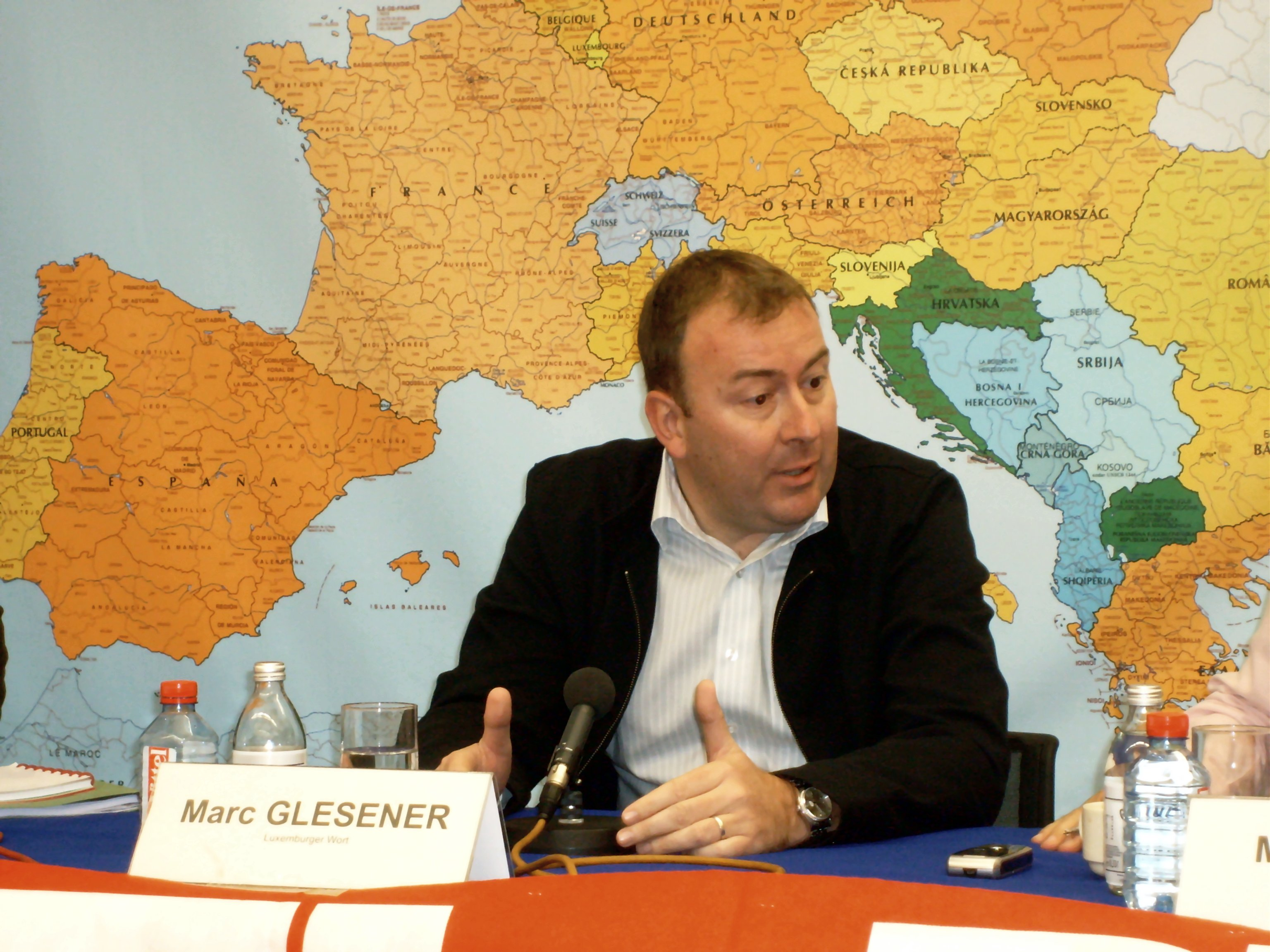 Luxembourg journalist Marc Glesener at round table with the press called "Presseclub" (organized every fortnight on Sundays by RTL Radio Luxembourg; here a special edition with public audience at the House of Europe in Luxembourg-city).